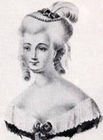 Mademoiselle Montansier (1730–1820), a French actress and theatre entrepreneur